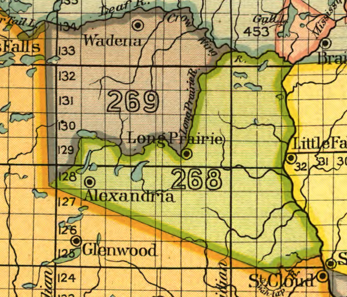 Details from 18th Annual Report, Plate 104—Minnesota, 1: Map of Treaty of Fond du Lac, with Mississippi Chippewa and Lake Superior Chippewa (9 Stat. 904), signed on August 2, 1847 at Duluth, Minnesota (designated 268 on the map) and Treaty of Leech Lake, with Pillager Band of Chippewa Indians (9 Stat. 908), signed on August 21, 1847 (designated 269 on the map).[1]